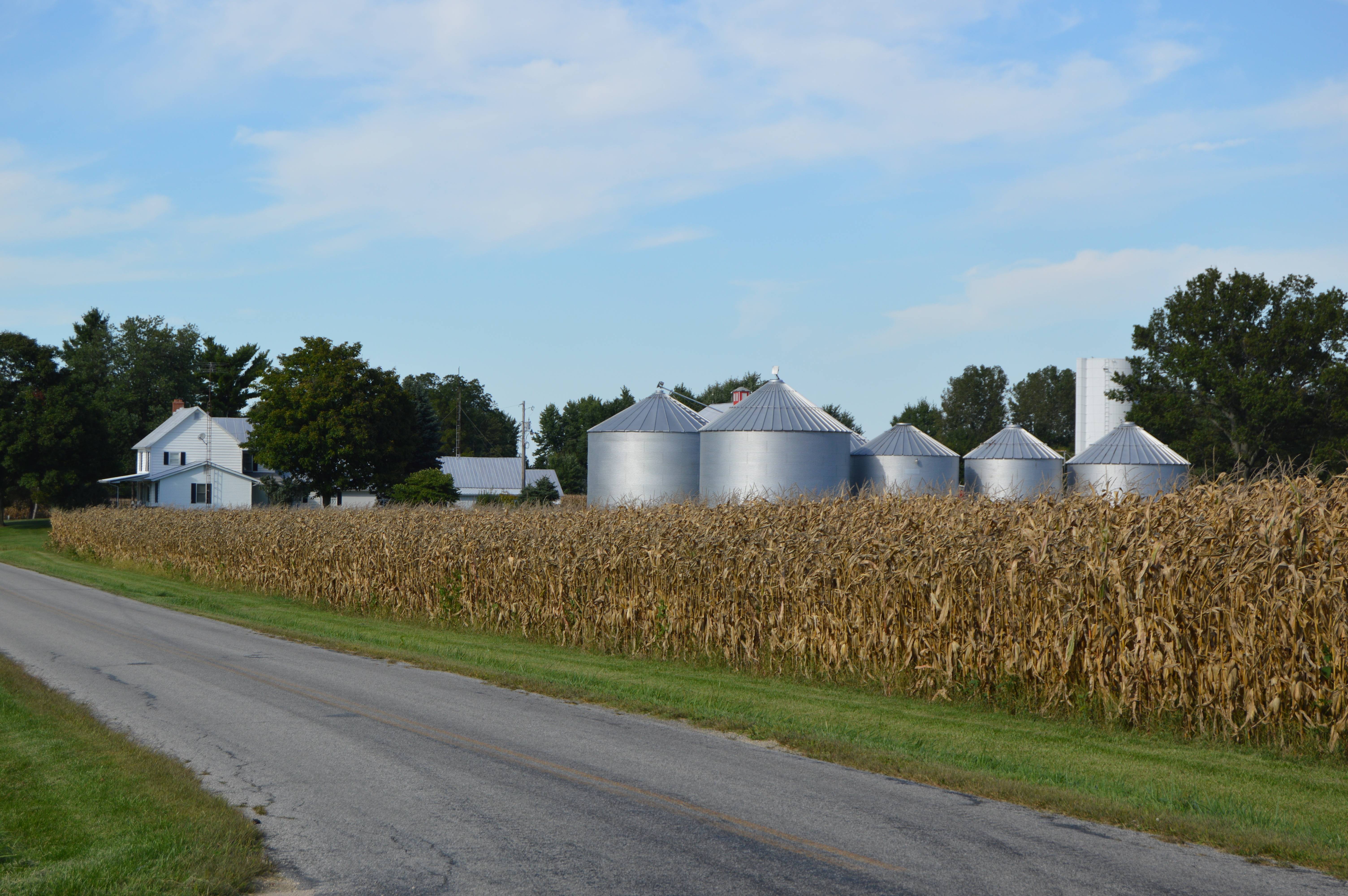 A farmstead on the eastern side of Steamtown Road north of the Whipple Road intersection in far southwestern Oxford Township, Delaware County, Ohio, United States.